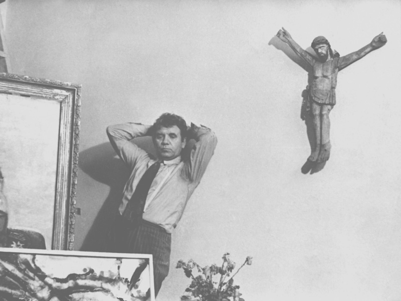 Moldovan artist Mihai Grecu, in his studio (70th years).